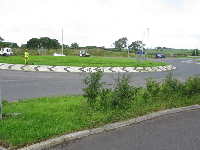 Roundabout at junction of A 76 and A 719 Many years ago the A719 crossed the A76 here at a very dangerous staggered crossroads.